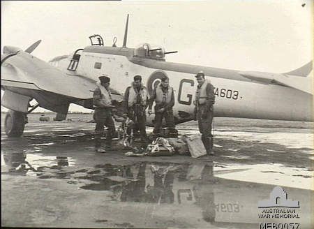 AWM caption : Gambut, Cyrenaica, Libya c. November 1943. Members of No. 454 Squadron RAAF, after flying for several hours over the sea while on an anti-submarine patrol, found plenty of water still about them when they returned to their flooded airfield in the desert. Left to right, beside their Martin Baltimore aircraft are: Flight Sergeant (Flt Sgt) V. C. Mitchell of Kyogle, NSW Flying Officer J. C. Clough of Wagga, NSW Flt Sgt H. Worboys of Gunbowen, Vic Flt Sgt L. Holley of Revesby, NSW A cropped up version of this image is held at UK2431.